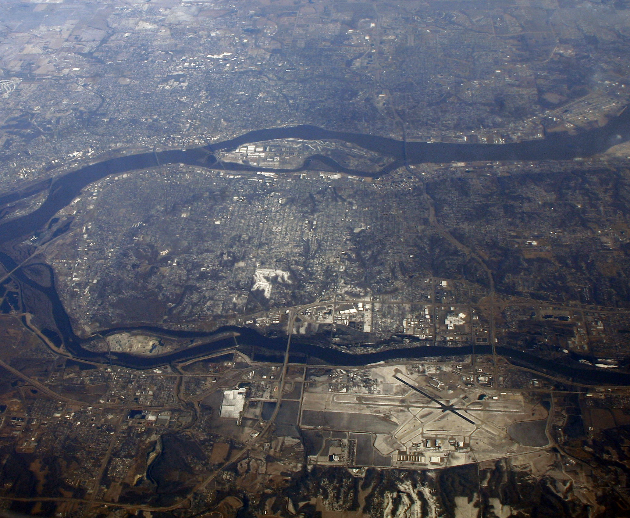 The Quad Cities, where the Rock River (below) joins the Mississippi. Iowa, with Davenport and Bettendorf, is above. Rock Island, Moline and East Moline are in Illinois and sandwiched between the two rivers in the middle. Milan, Illinois, and the Quad City International Airport (MLI) are below the Rock River. Rock Island Arsenal (Arsenal Island, formerly Rock Island) is the big one in the Mississippi.